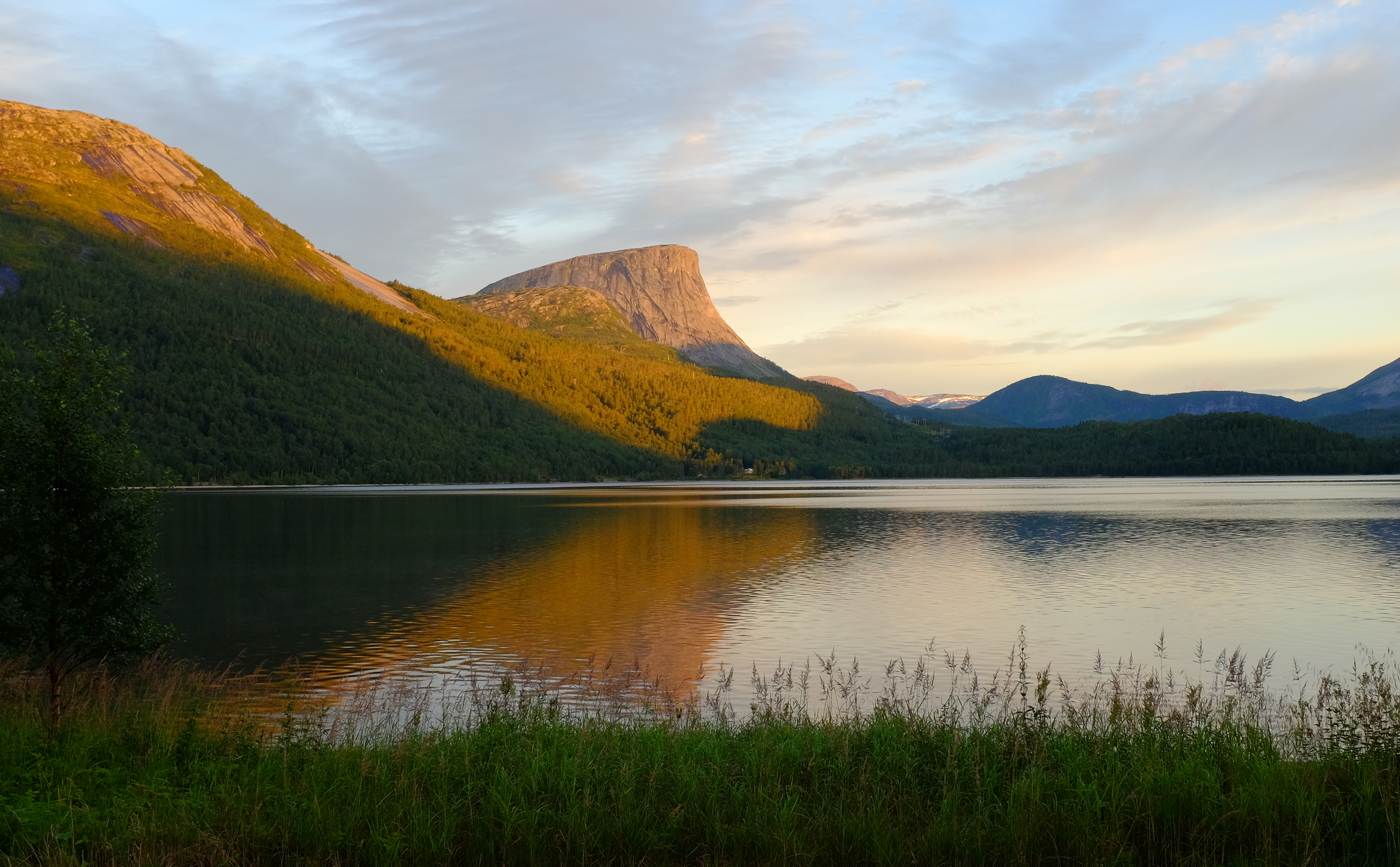 Kråkmotinden summit is a characteristic mountain close by Kråkmo farm south in Hamarøy municipality in Nordland county.